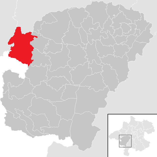 District Vöcklabruck